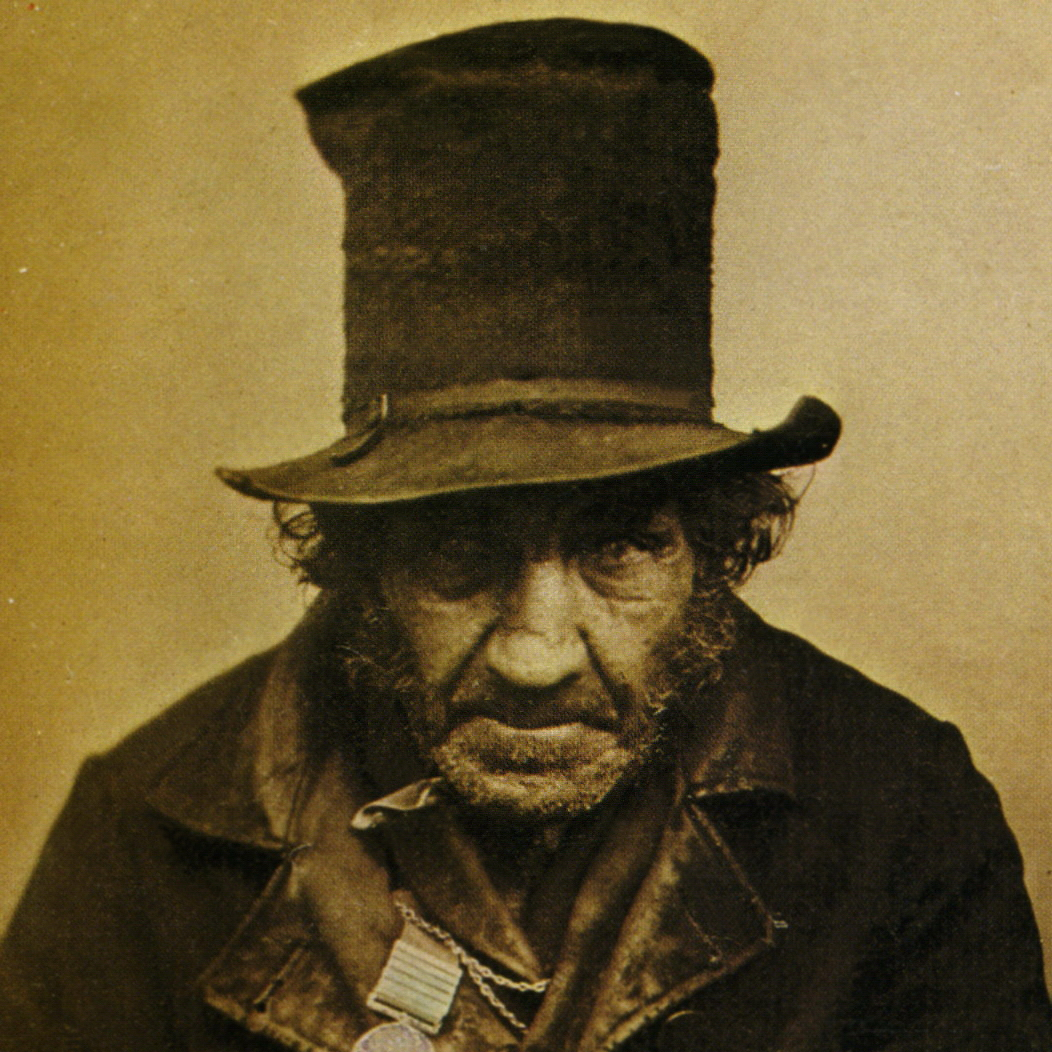 1860 anonymous photograph